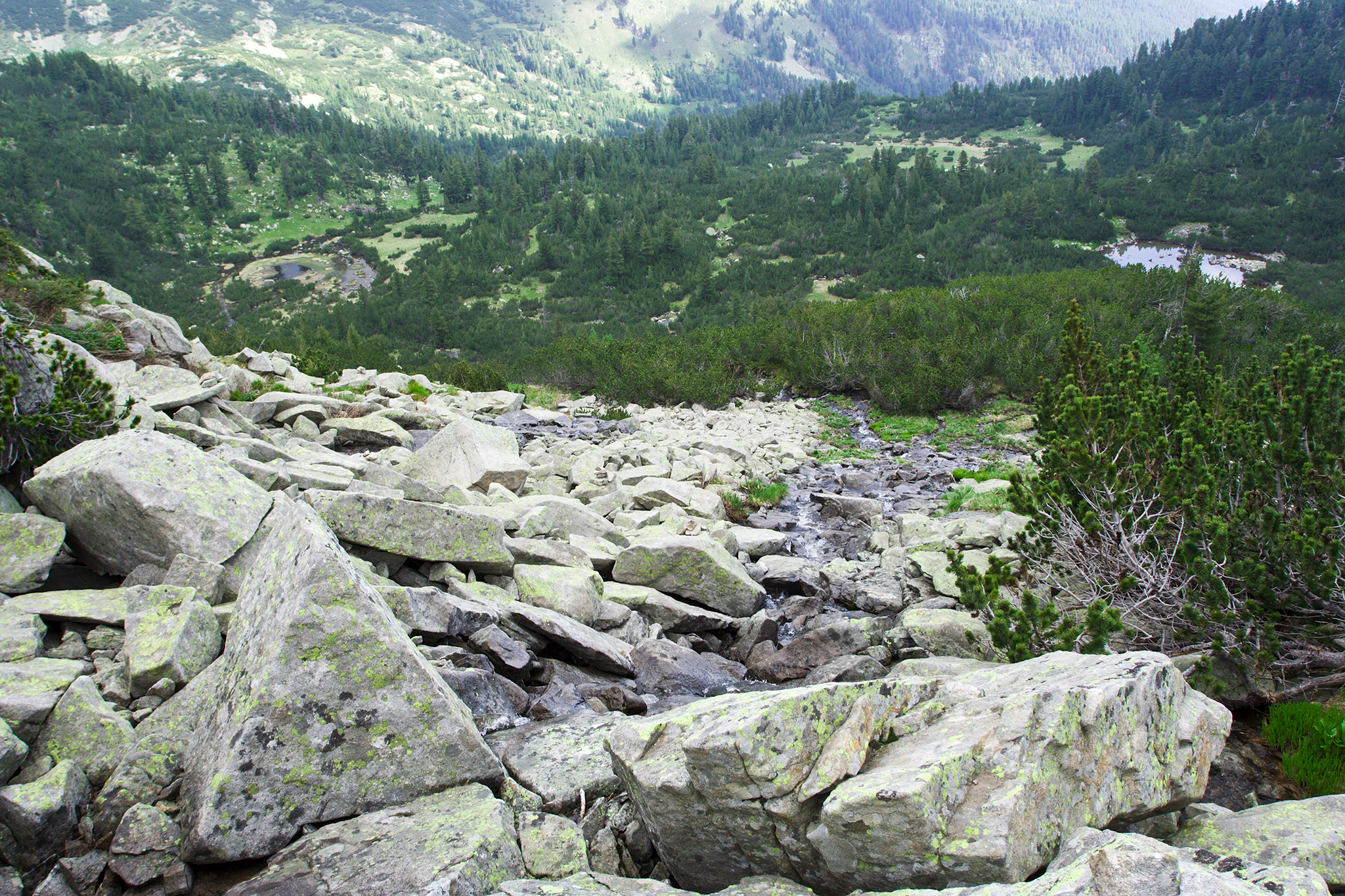 The lower two of Kremenski lakes group, Pirin mntn, Bulgaria